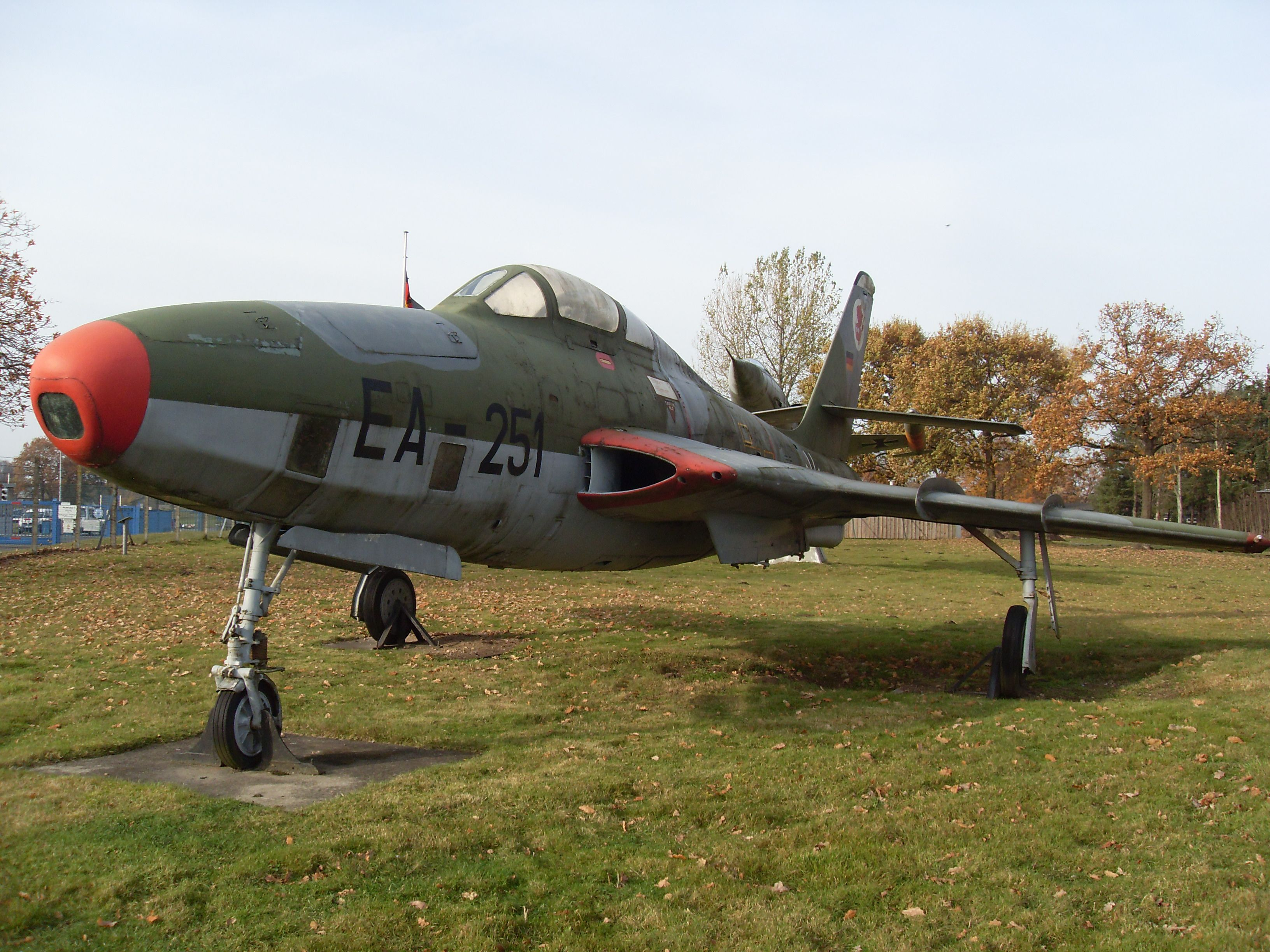 Republic RF-84F Thunderflash in Jagel, near Schleswig in Schleswig-Holstein, Germany. The Aircraft 'EA-251' belongs to AG 51 'Immelmann' at Erding since then 1958-05. Later based at Manching near Ingolstadt/Upper Bavaria 1960-05 to 1965-06.